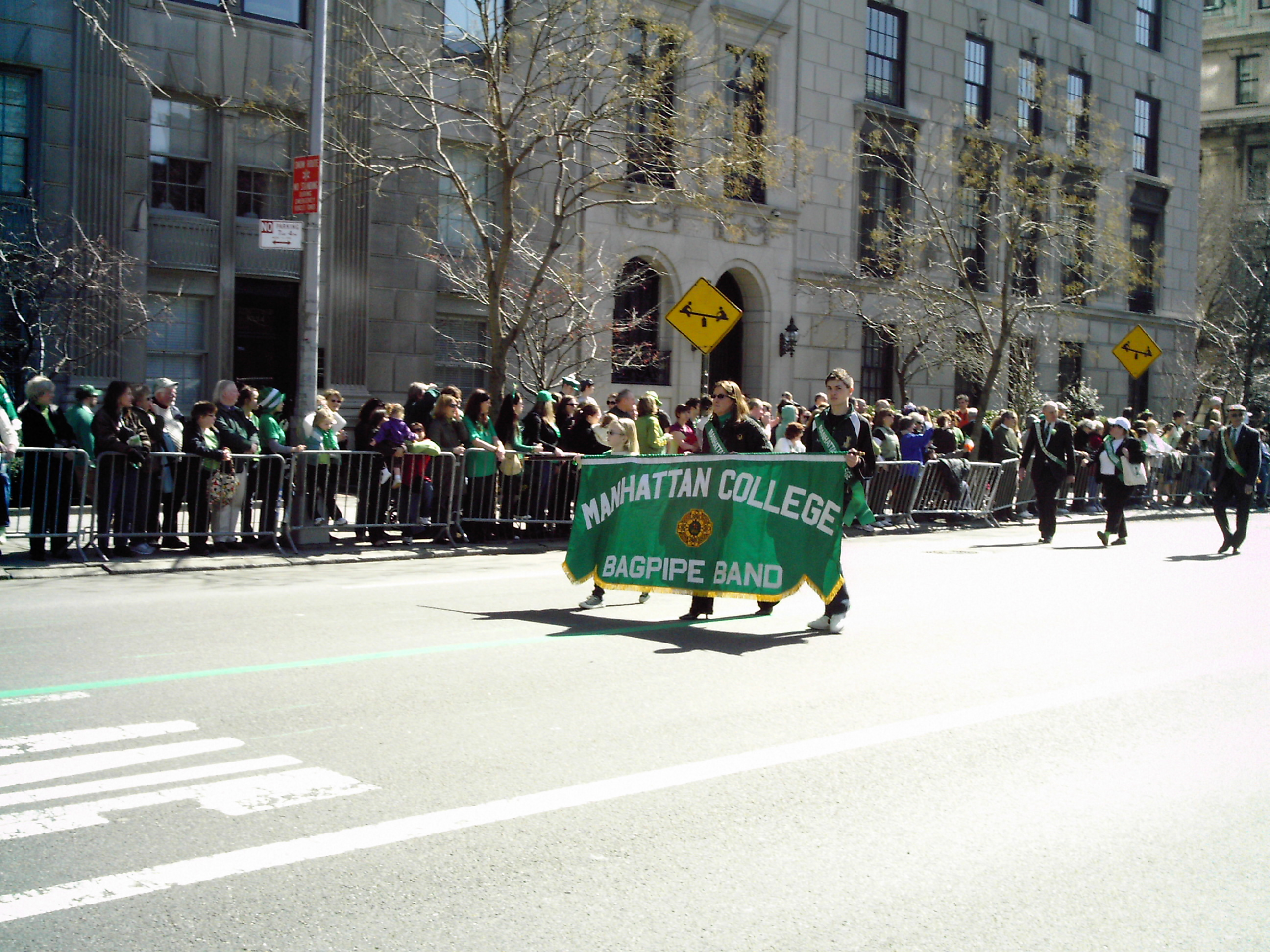 Manhattan College Bagpipe Band banner, but no bagpipes in photo